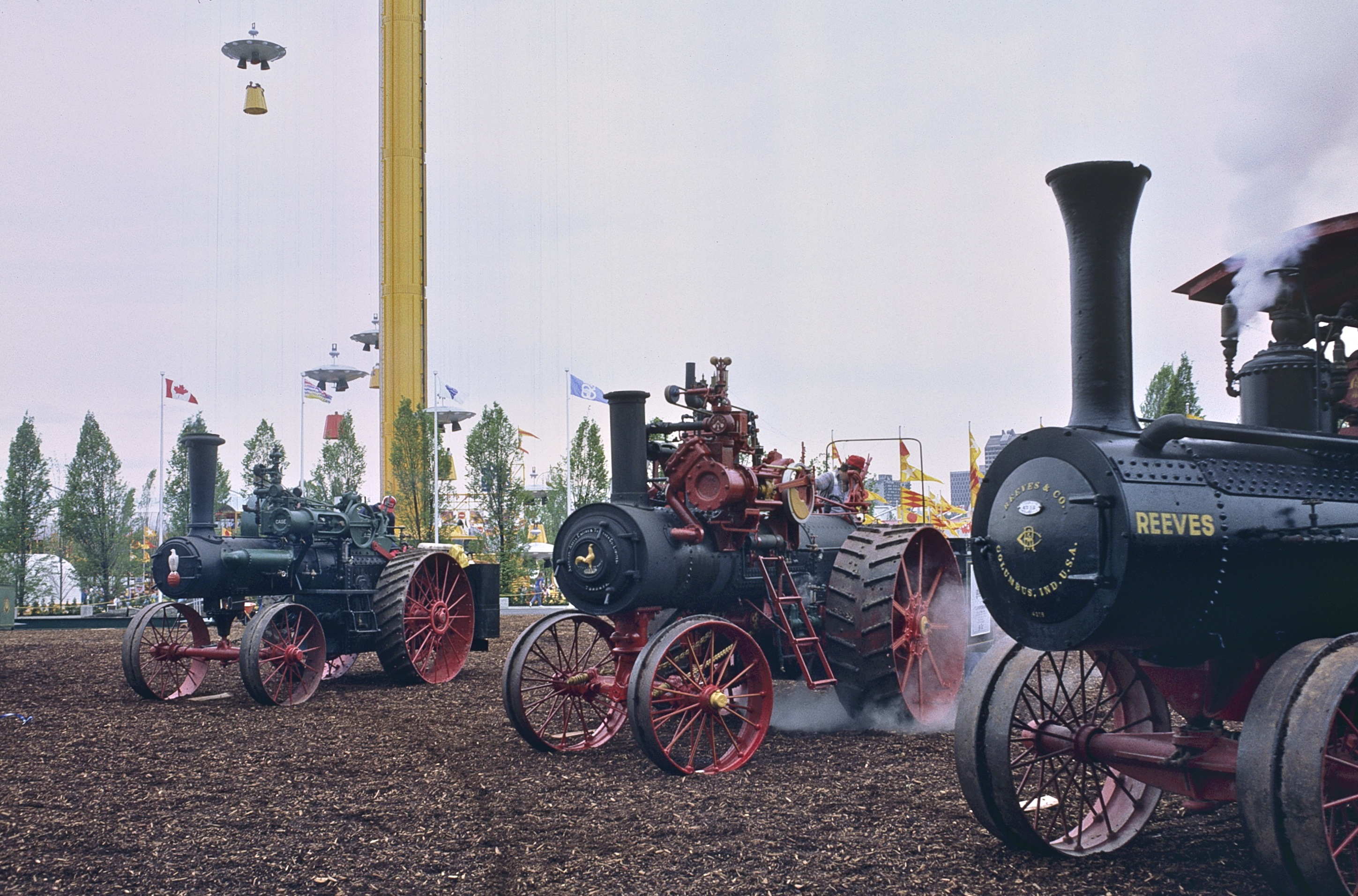 Steam-powered tractors (or traction engines) being shown at Expo 86, in Vancouver, B.C. The three pictured here were built by (left to right) the J.I. Case Threshing Machine Company (of Wisconsin), the American-Abell Engine & Thresher Co. (of Toronto), and Reeves & Co. (of Indiana).